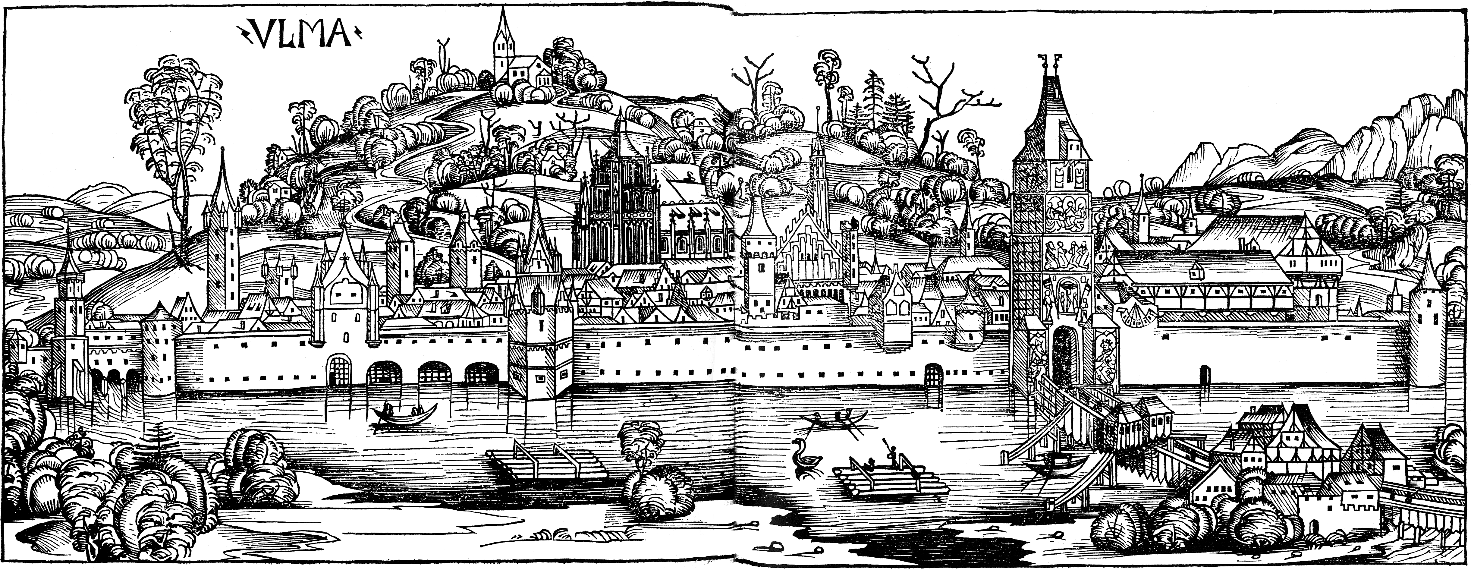 View of Ulm in southern Germany, around 1490.